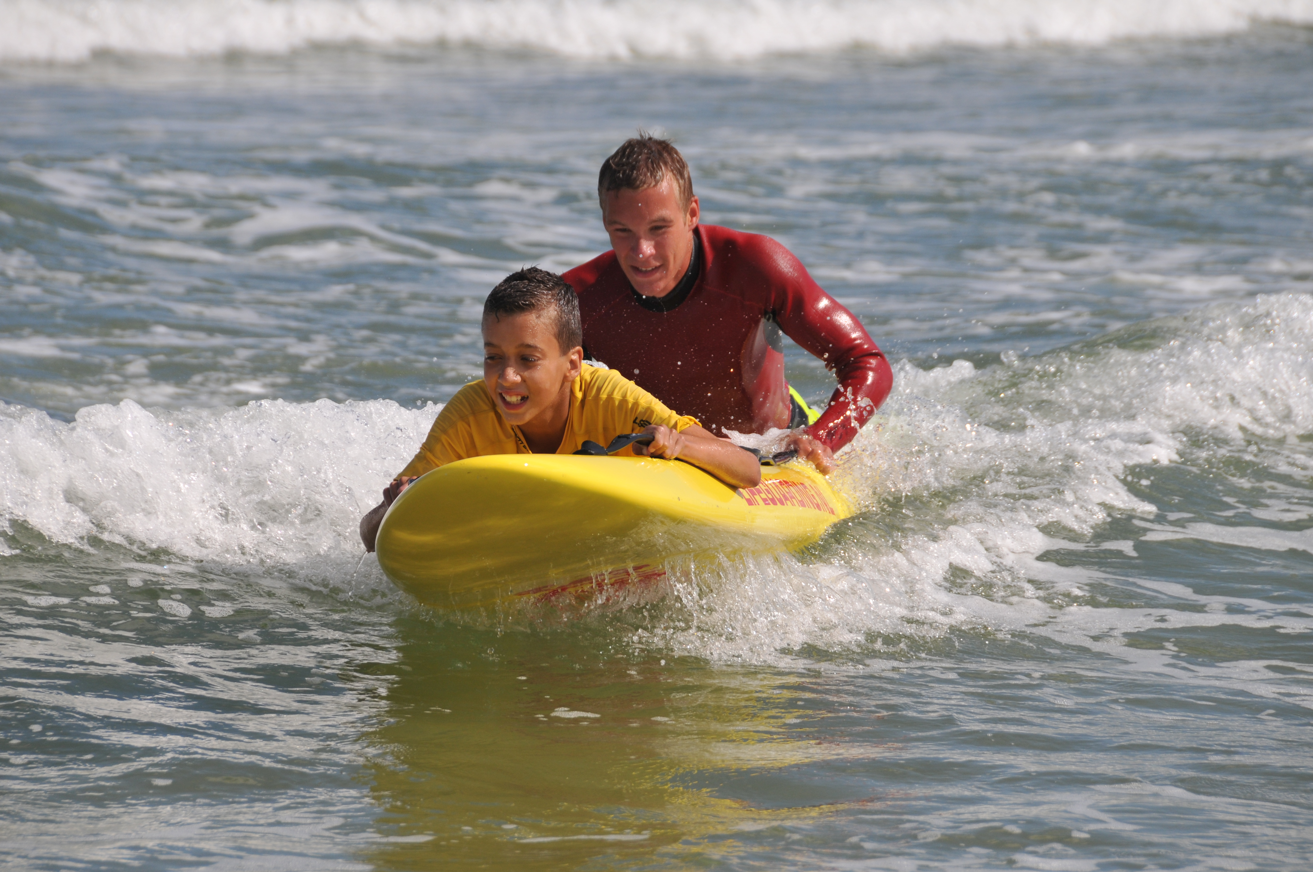 Lifeguard saving a person, with paddleboard